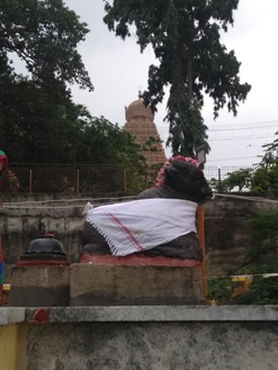 Balipeeda and Nandhi in front of the shrine, Sivaganga tank temple in Sivaganga Park, Thanjavur, Tamil Nadu, India. In the Background the vimana of the Big Temple is seen